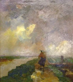 Regenbuitje